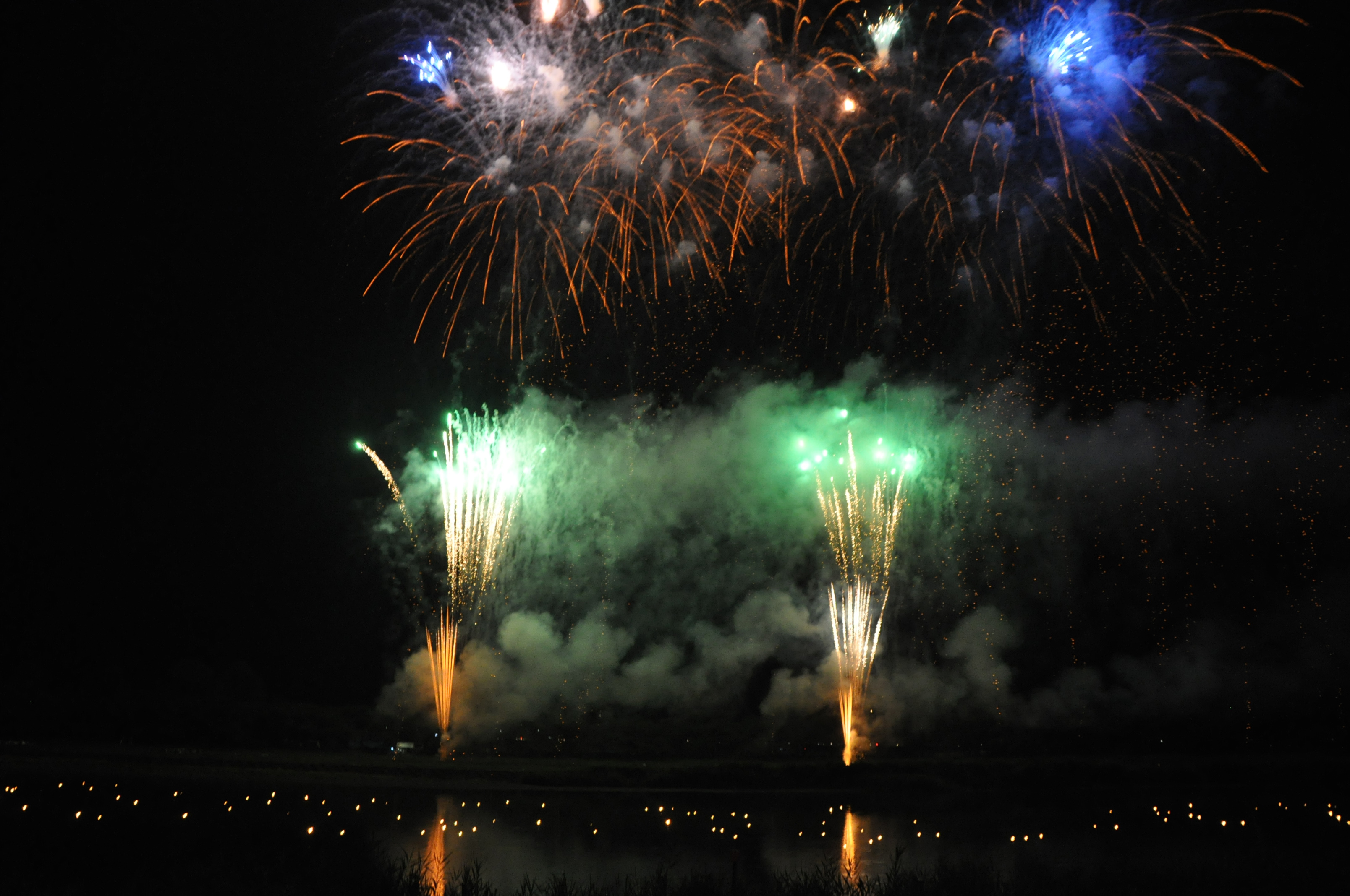 Fireworks over the Kitakami River, Kitakami City, Iwate, as tiny paper lanterns float down the river